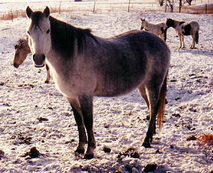 One of the last remaining Canadian Rustic Ponies. The name of this pony is Rusty's Dam. Donated by by Melita Clemence of Saskatchewan